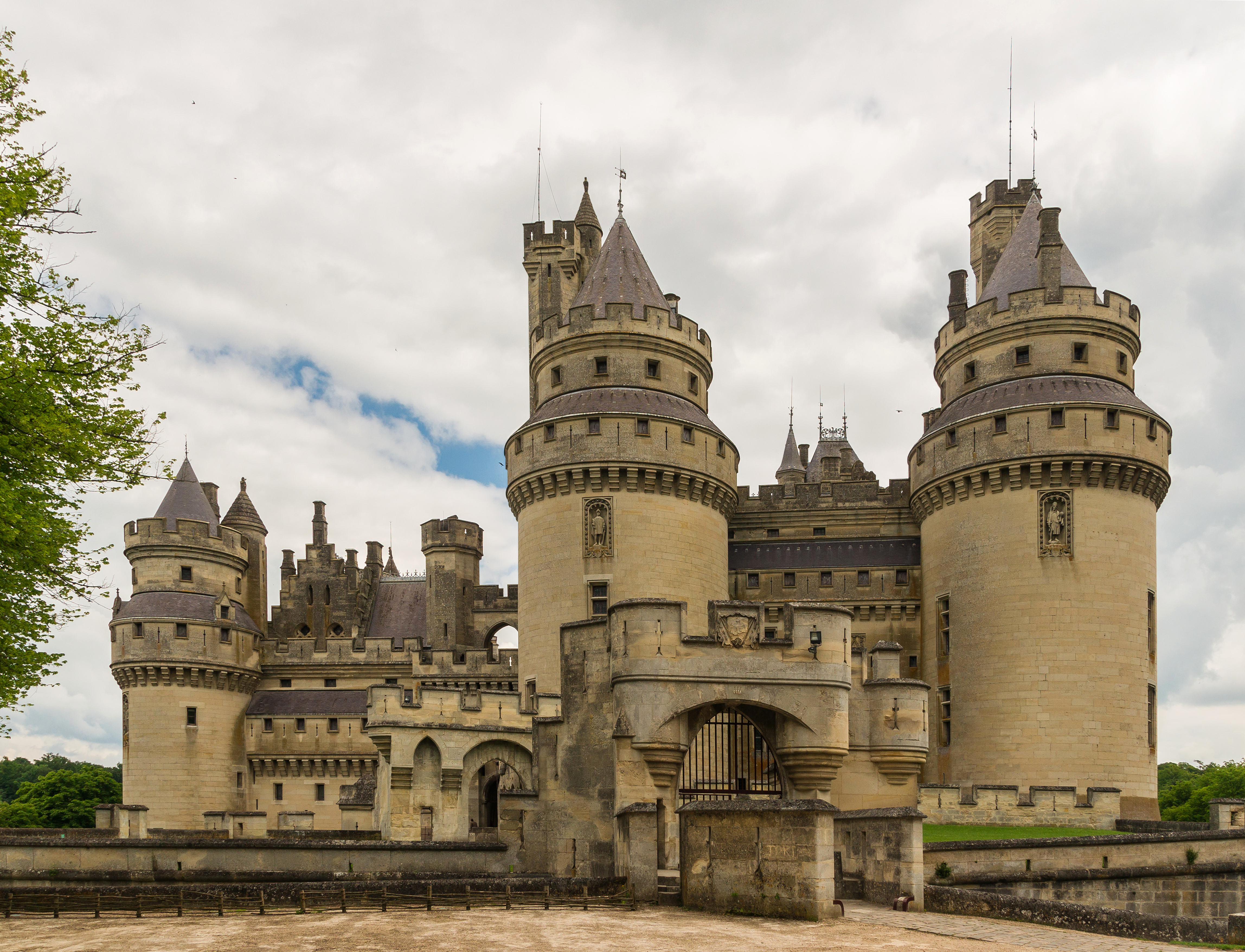 Pierrefonds castle, as seen from the south (entrance). Oise, France.